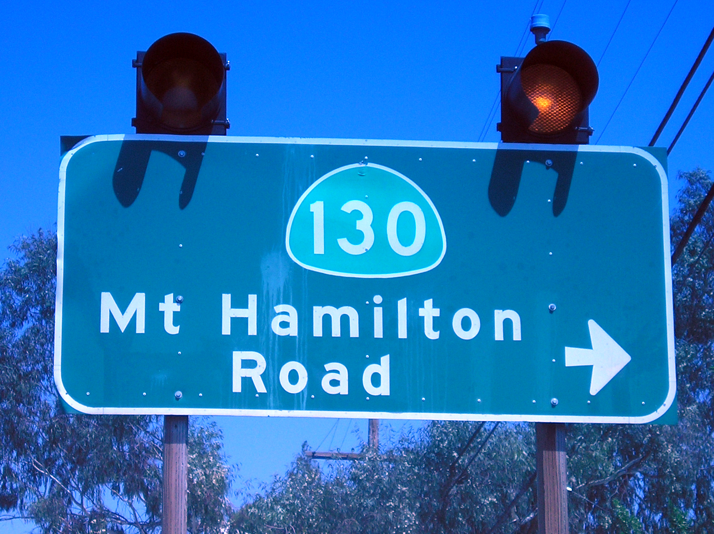 State Route 130 sign directing to Mount Hamilton. I pulled over the side of the road & snapped the picture